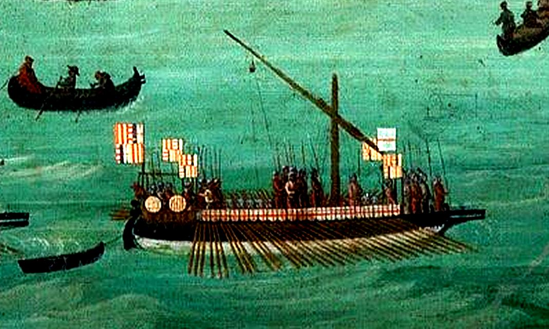 Tavola Strozzi, view of the city of Naples in Italy from the sea, 1470. (Alfonso V of Aragon naval victory on John of Anjou). Museo di San Martino, Naples, Italy.